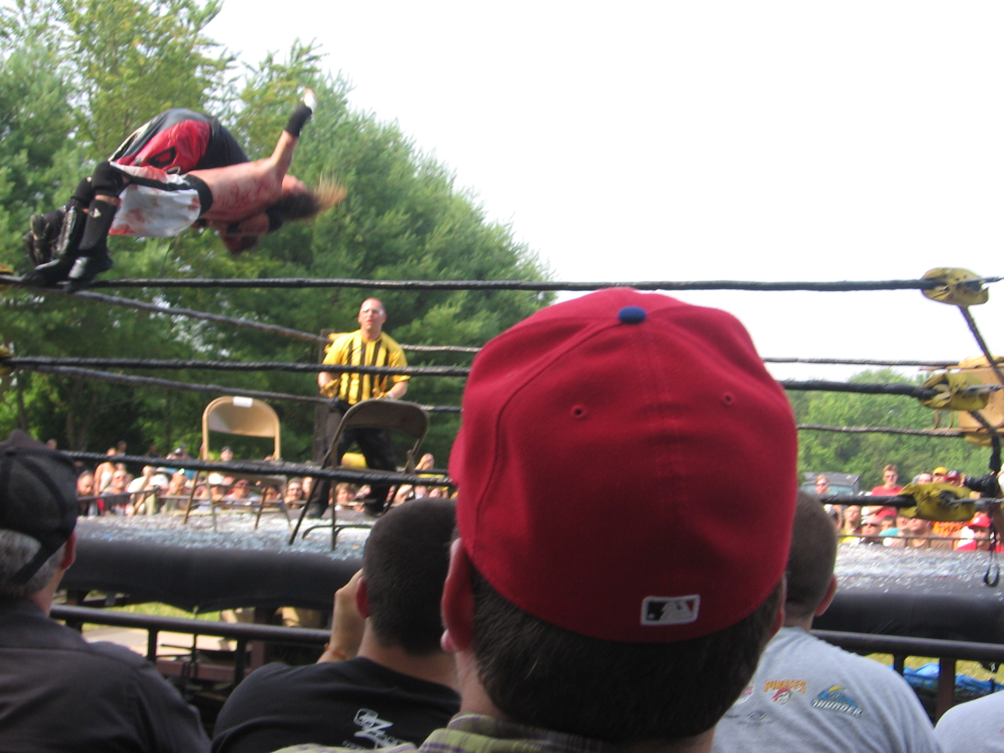 Scotty Vortekz does a spanish fly on Dysfunction thru a pane of glass